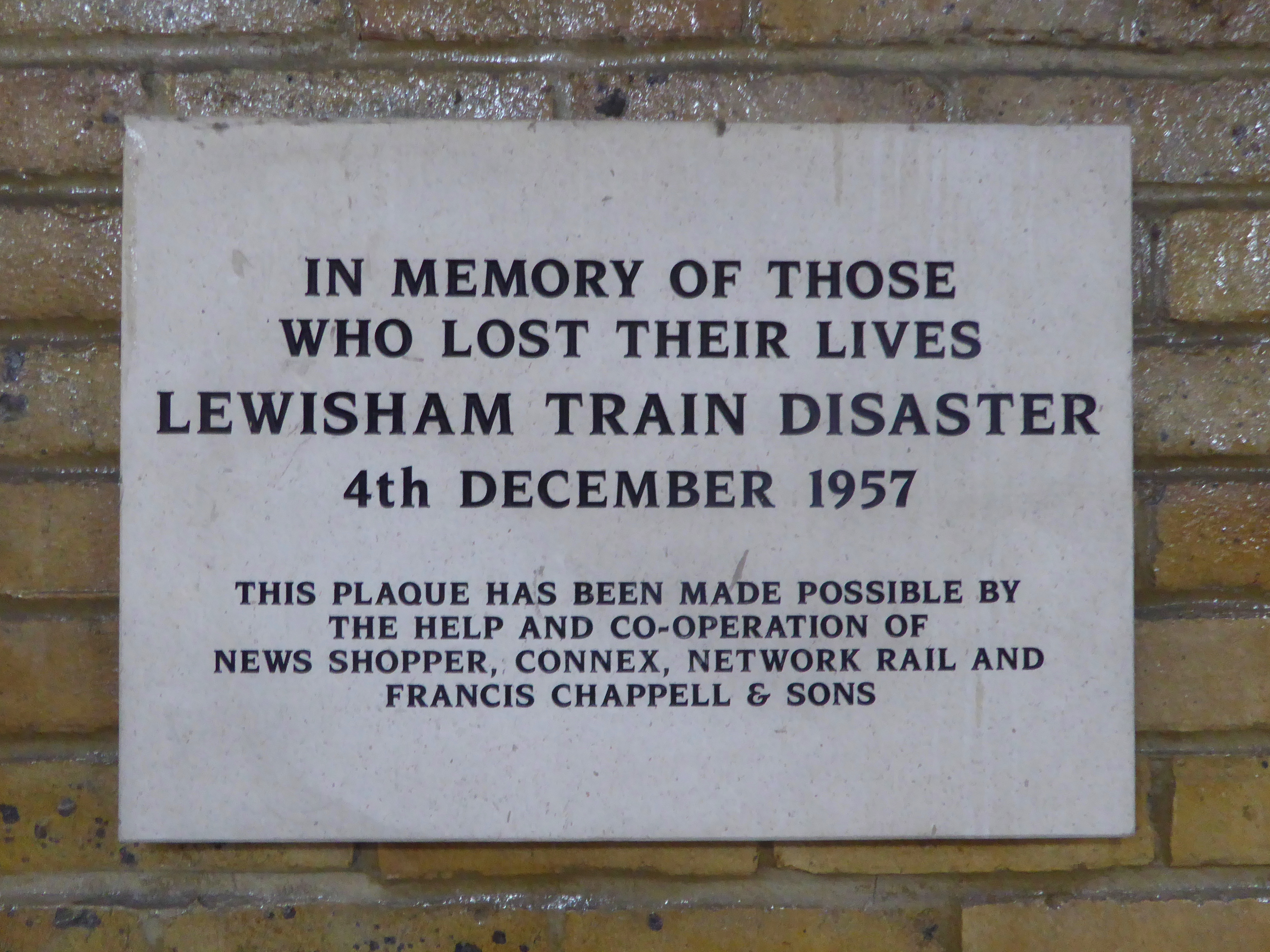 A memorial plaque to the Lewisham train disaster of 1957, on the wall of Lewisham train station.